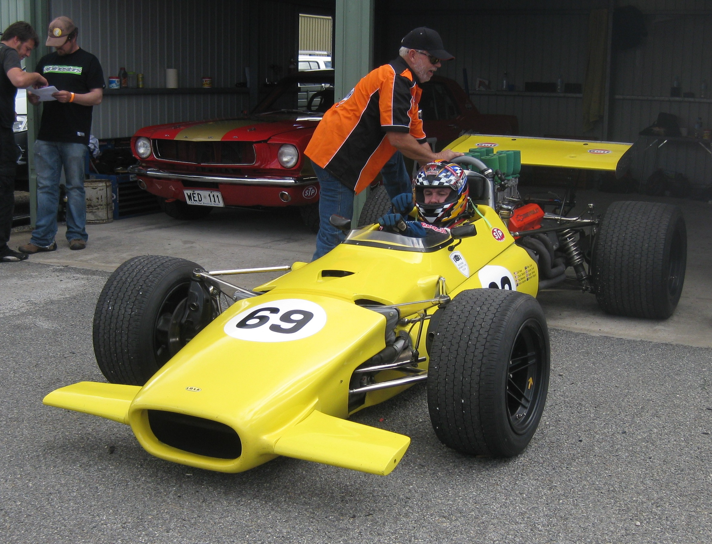 The Chevrolet powered Lola T142 of Brenton Griguol at Mallala Motor Sport Park